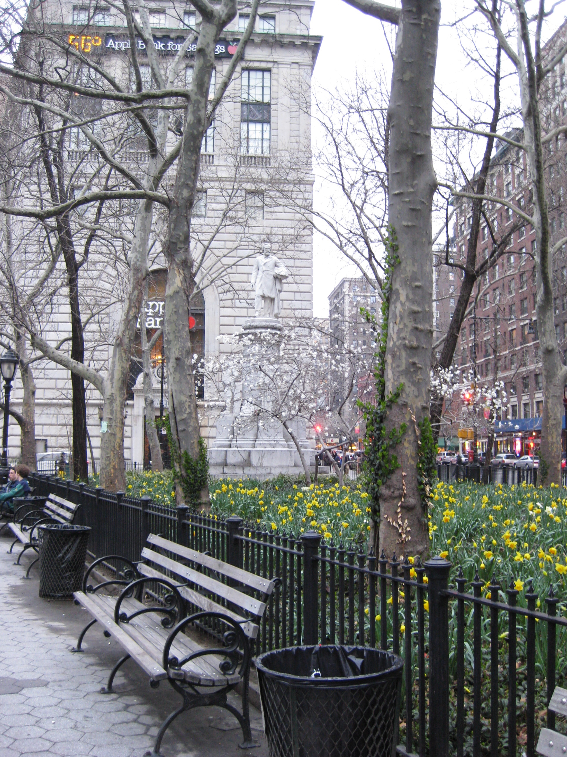 Context photo from 'Wikipedia Takes Manhattan' Wikimedia content creation event. Verdi Square